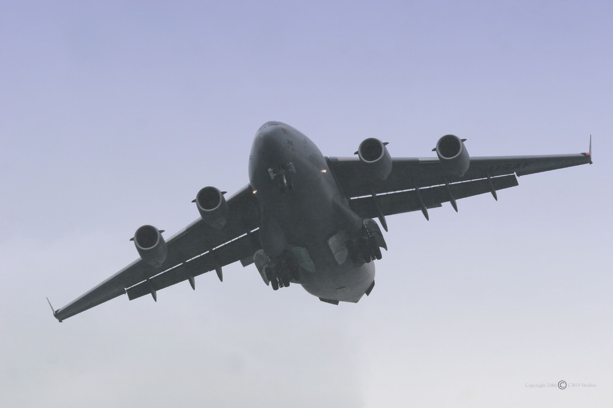 Canadian International Airshow Saturday September 2nd 2006